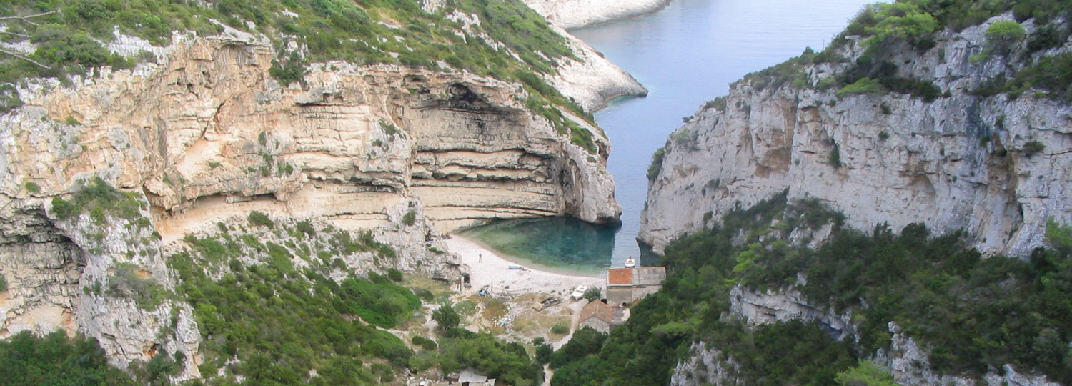 Bay of Stiniva, island of Vis, Croatia